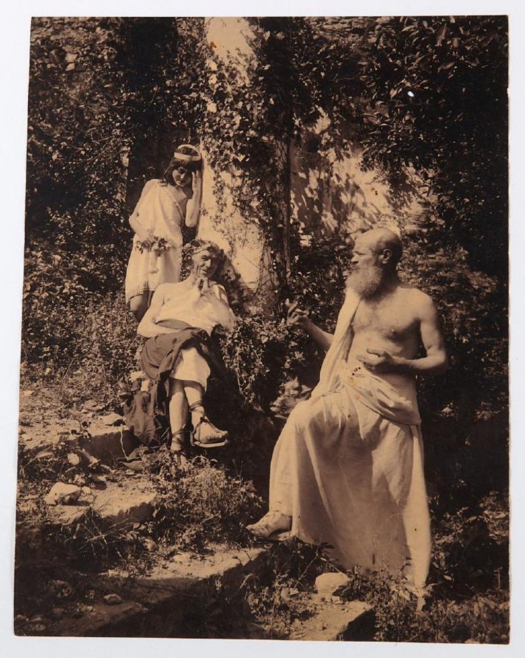 Wilhelm von Gloeden (1856–1931), Picture number 34 (Conversation between two Ancient Greek philosophers in a garden, with a pupil). Source: online auctions site.